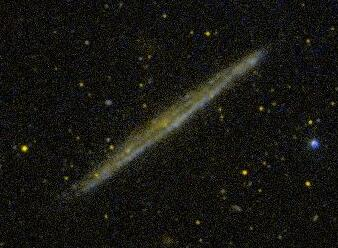 GALEX (ultraviolet) image of NGC 5170.